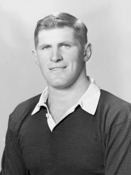 Photograph of rugby player John Major, taken by Crown Studio Ltd of Wellington.